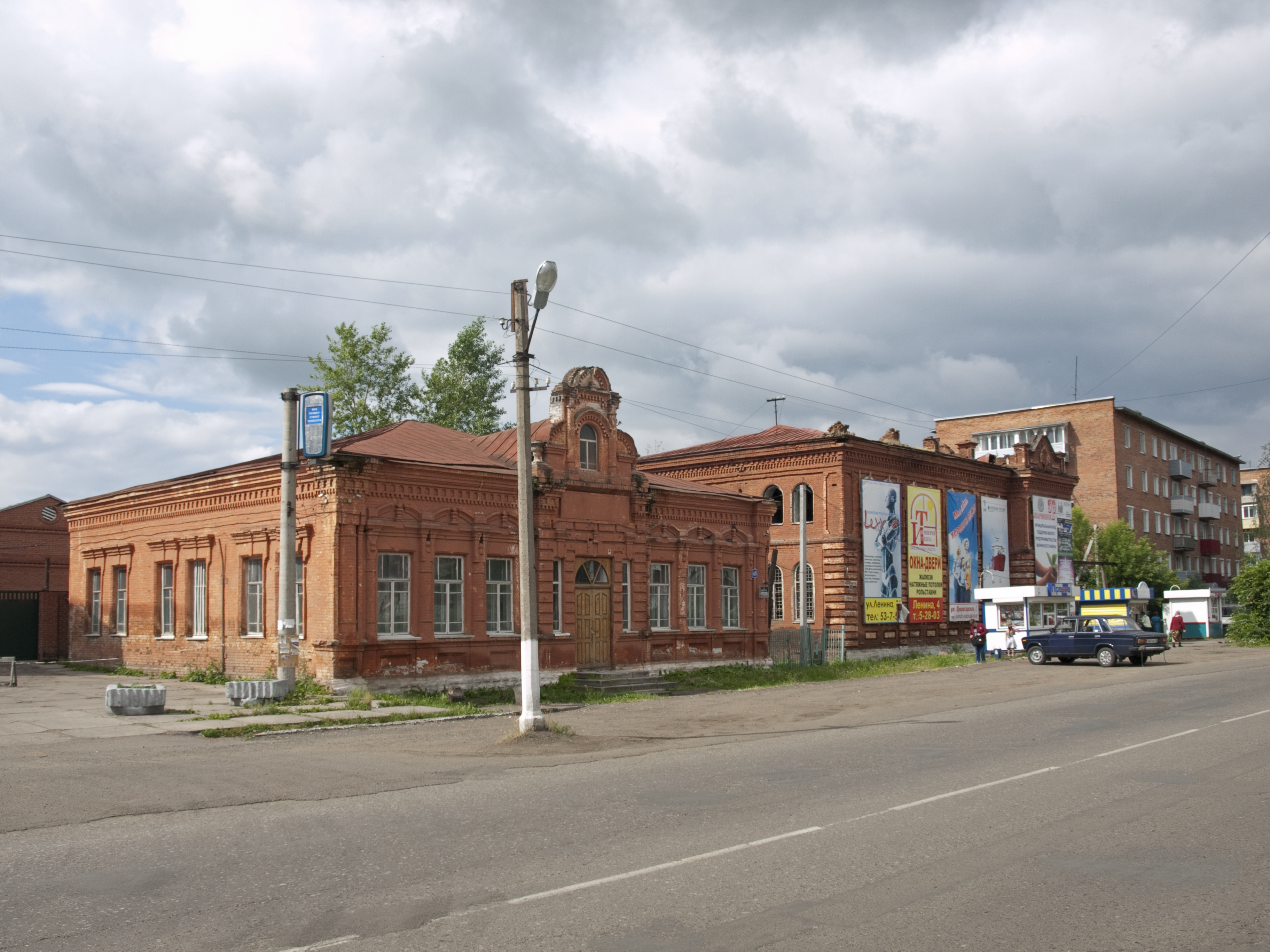 Synagogue (right, Lenina Street 45) and the house of rabbi (45), Mariinsk